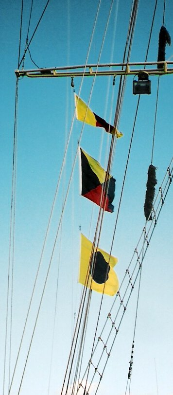 International maritime signal flags (0, Z, I)